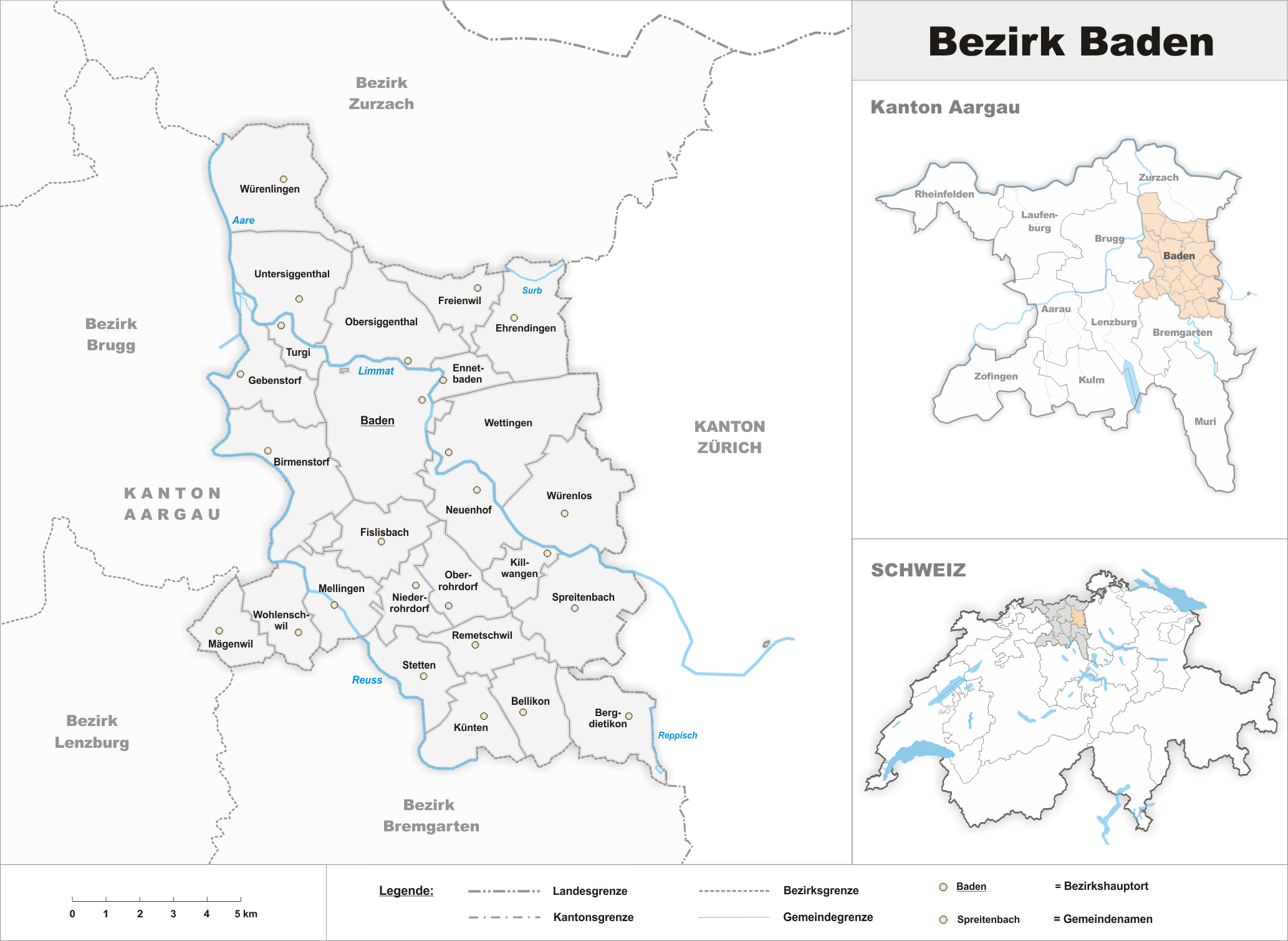 Municipalities in the district of Baden to 2010